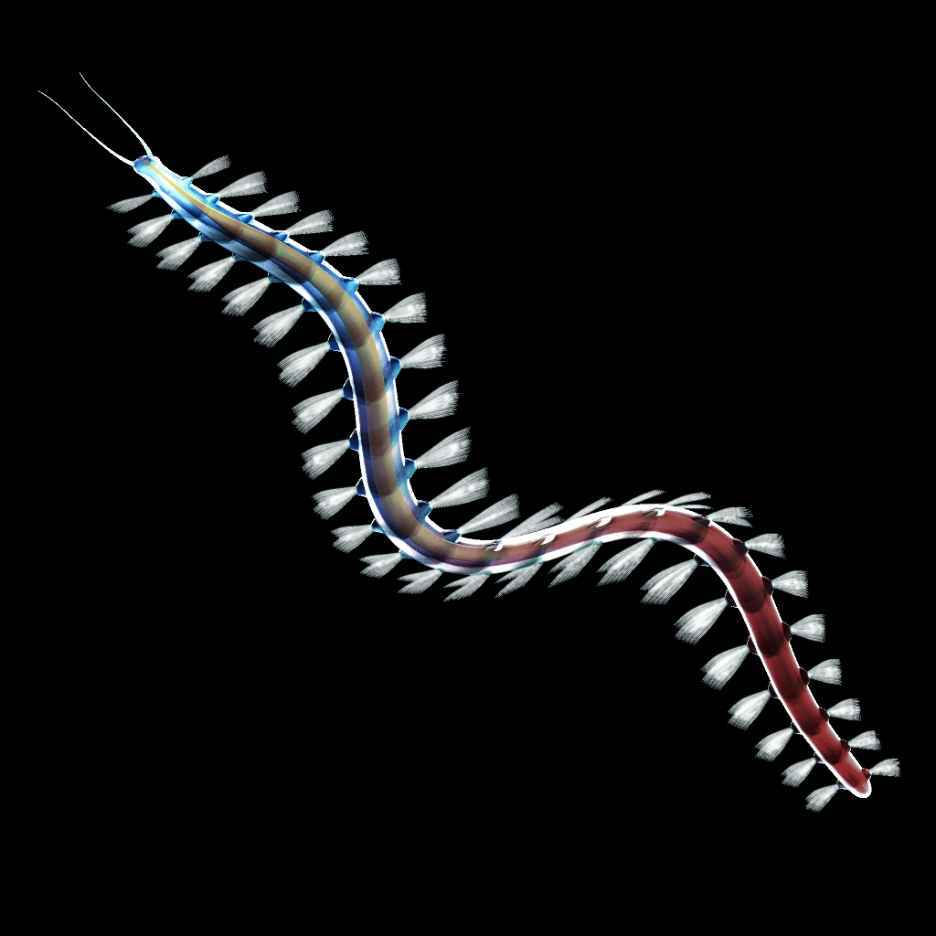 Reconstruction of the Burgess Shale fossil polychaete Burgessochaeta setigera